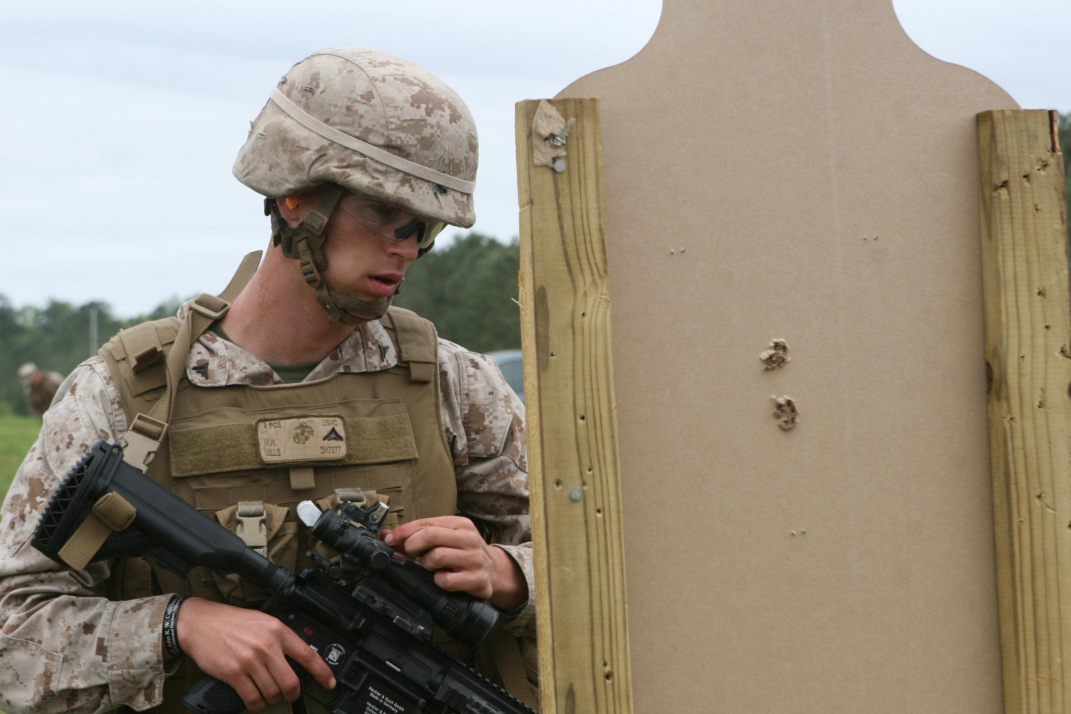 Lance Cpl. Michael Mills, a scout with 2nd Light Armored Reconnaissance Battalion, 2nd Marine Division, checks two sets of grouped bullet holes as he adjusts the rifle optic on his M27 Infantry Automatic Rifle for accuracy. The Wytheville, Va., native served a combat tour to Afghanistan with the M-249 Squad Automatic Weapon but said he immediately preferred the M27 IAR after firing it for the first time.